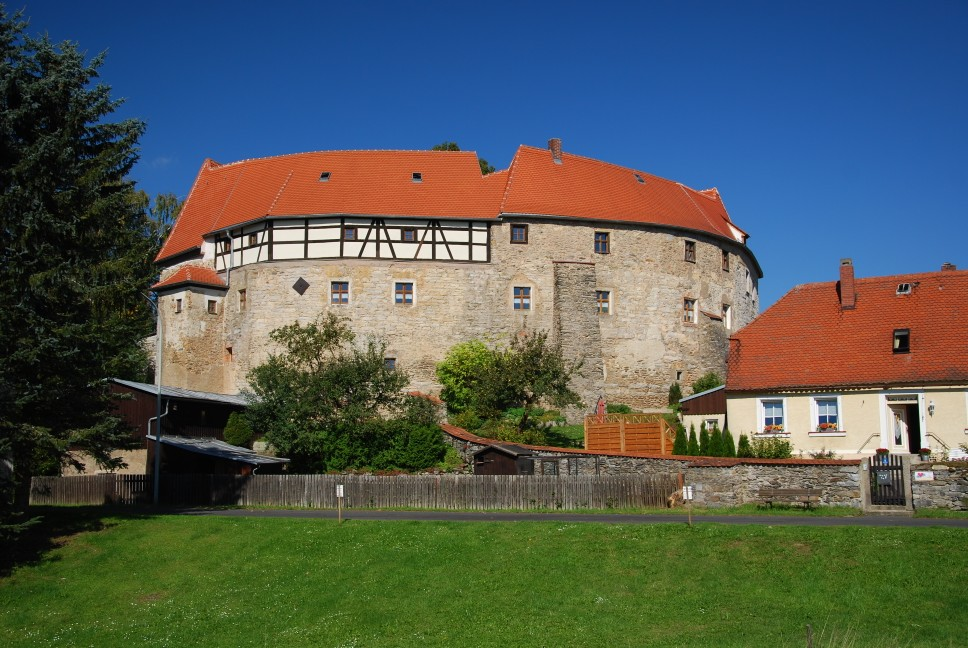 The castle was built in 1100 and served as the starting point for the settlement of Waldershof, Tirschenreuth, Bavaria, Germany.